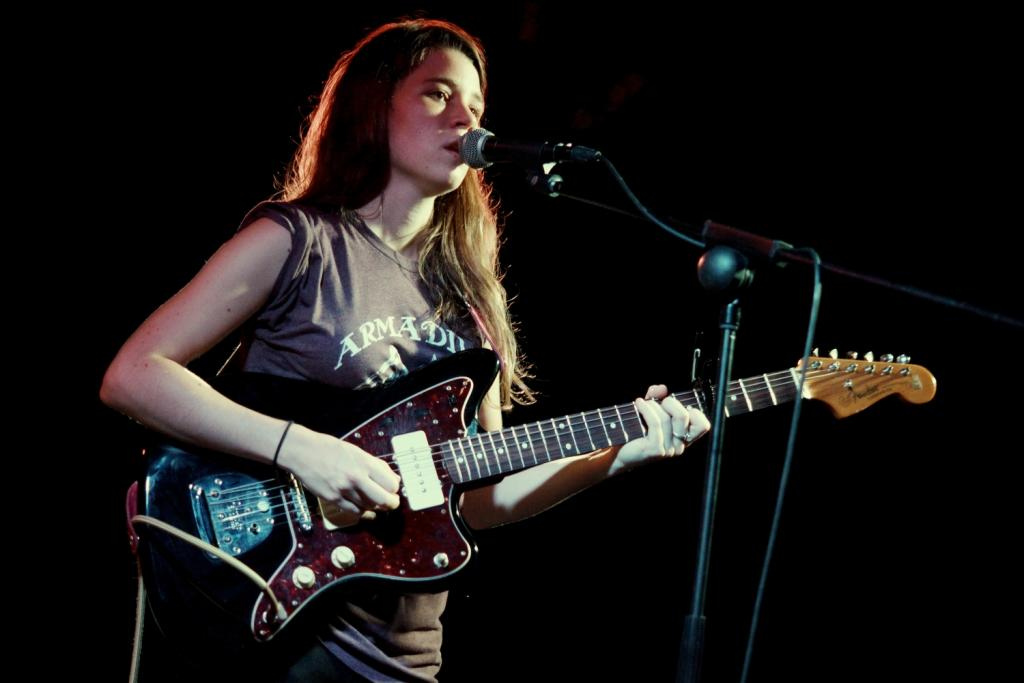 Lady Lamb the Beekeeper performing at the Night and Day Cafe, Manchester, 8th October 2013.